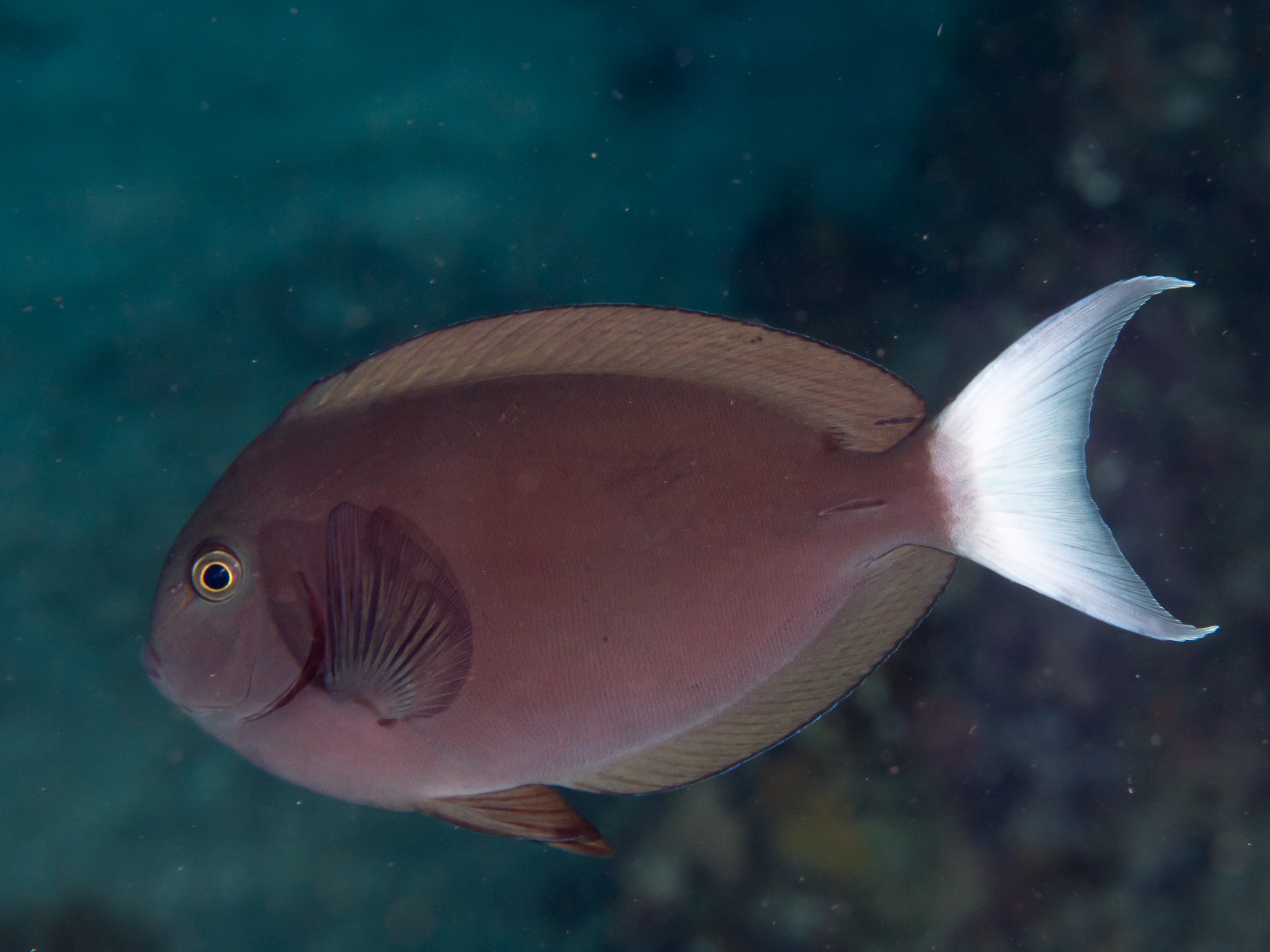 Whitetail surgeonfish (Acanthurus thompsoni). Raja Ampat